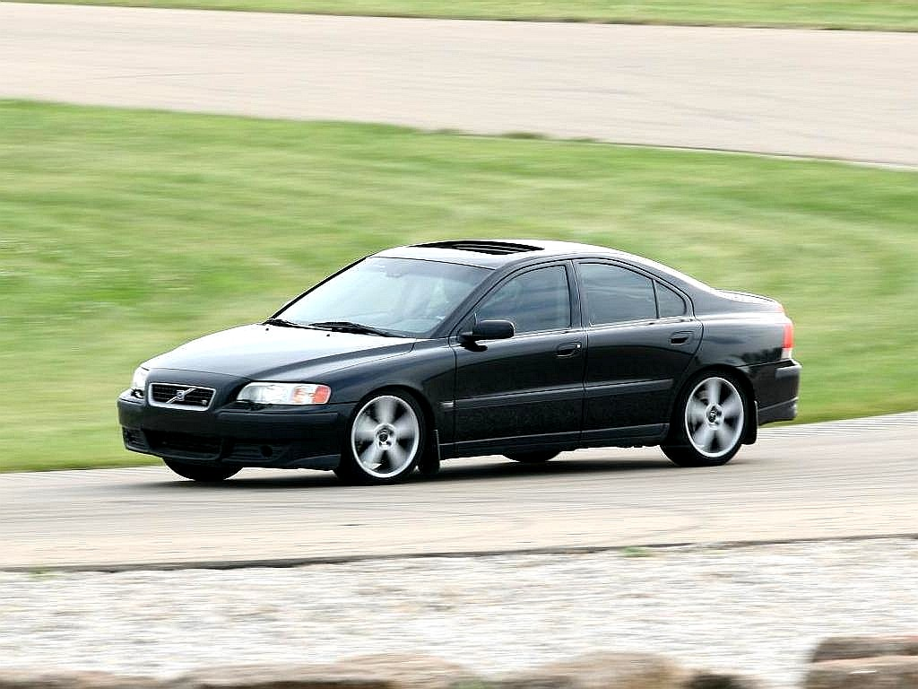 Black Volvo S60 R sedan at "Stratotech Park" in june 2010